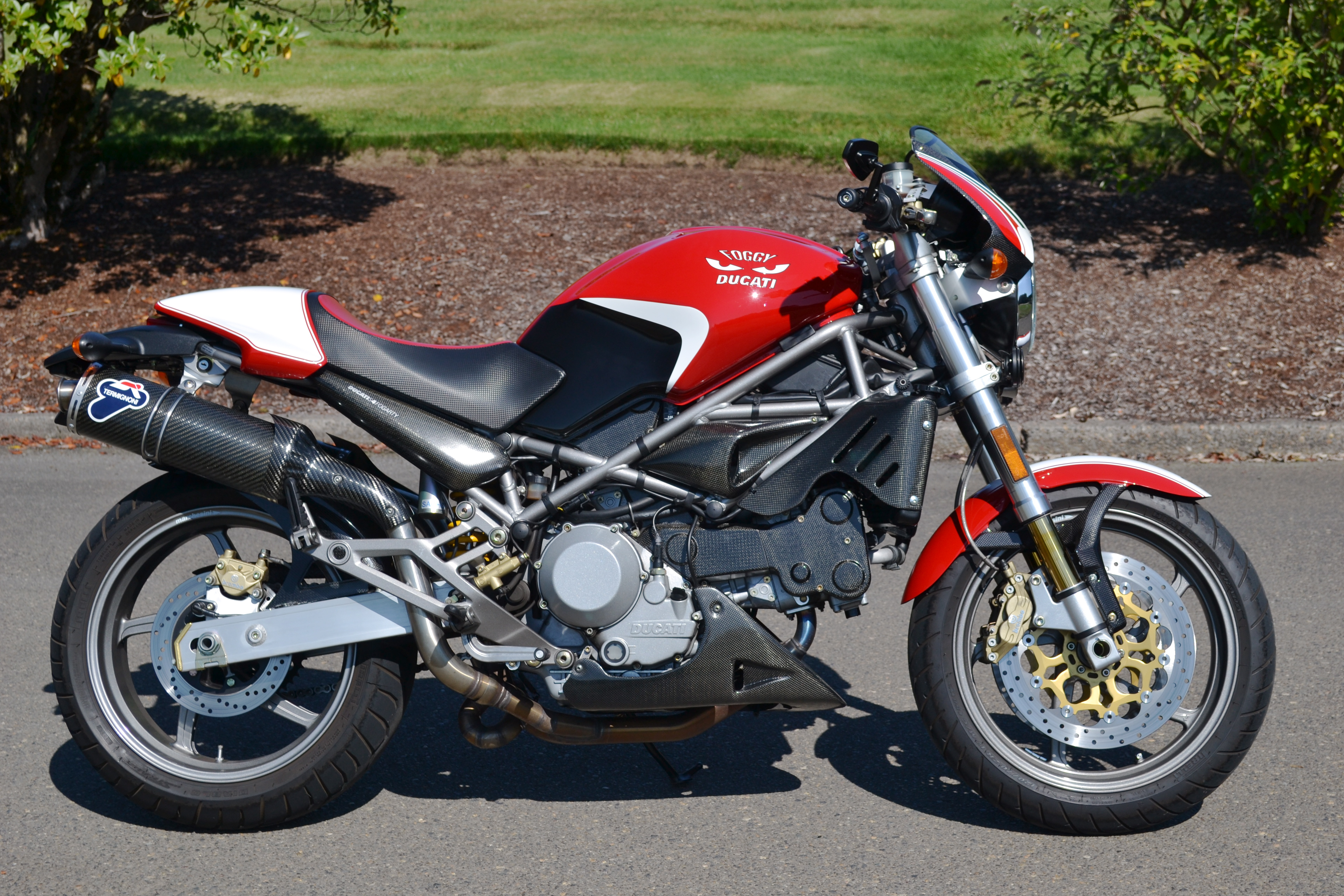 Limited Edition Ducati S4 Fogarty. Only 300 Made